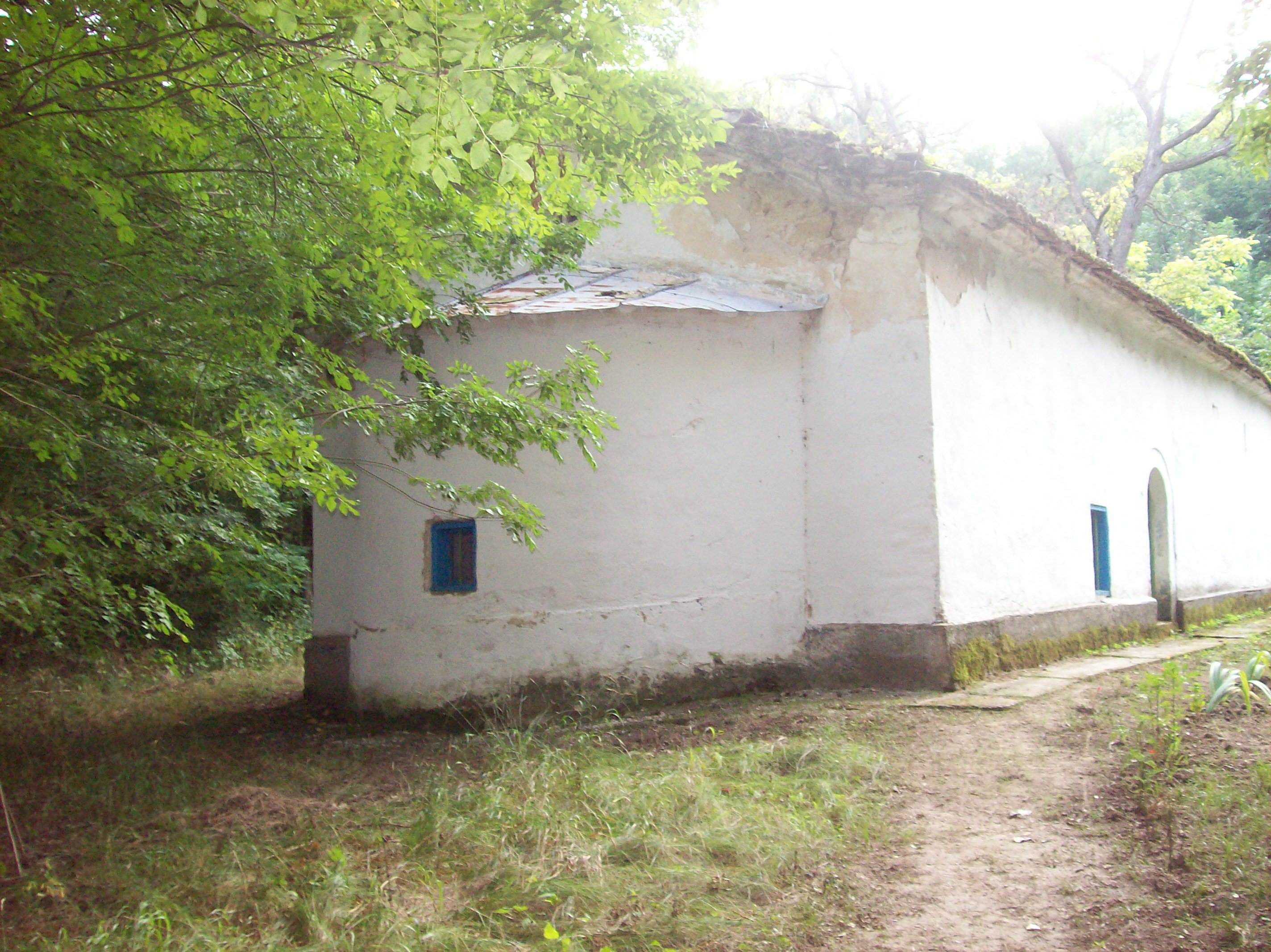 Church of village Stanevo